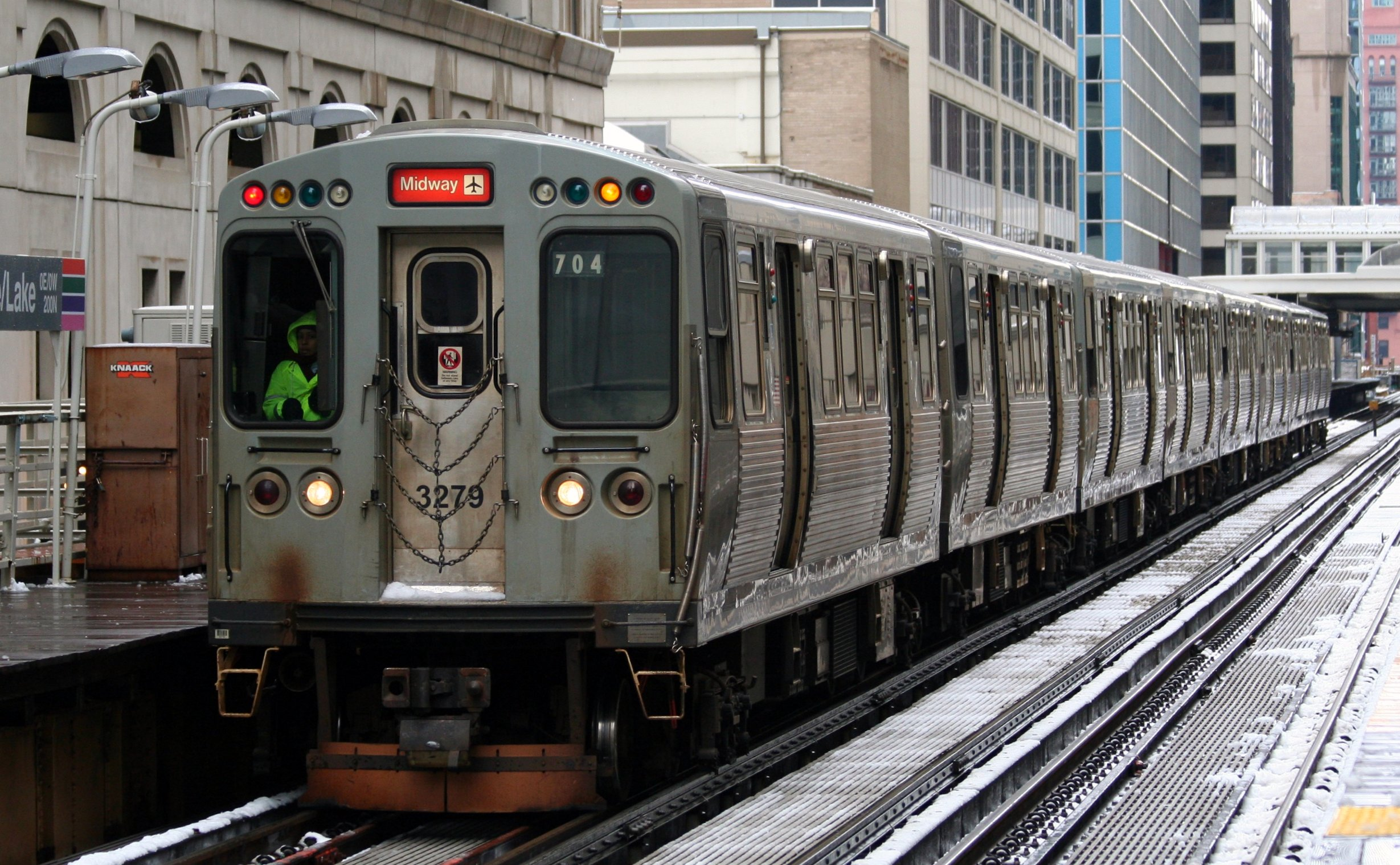 From Wikipedia: The Loop (historically Union Loop from multiple entities owned by transit baron Charles Tyson Yerkes, including two that began with the word Union) is the name given to the two mile circuit of elevated railroad that forms the hub of the 'L' rapid transit system in Chicago, Illinois. The Loop is so named because the railroad loops around a rectangle formed by Lake Street (north side), Wabash Avenue (east), Van Buren Street (south), and Wells Street (west). The surrounding area is also known as The Loop. Numerous accounts assert that the use of this term predates the elevated railroad, deriving from the multiple cable car turntables, or loops, that terminated in the district, and especially those of two lines that shared a loop, constructed in 1882, bounded by Madison, Wabash, State, and Lake.[1] However, transportation historian Bruce Moffat, after extensive research of the issue, concluded that "the Loop" was not used as a proper noun until after Yerkes's 1895–97 construction of the elevated hub.